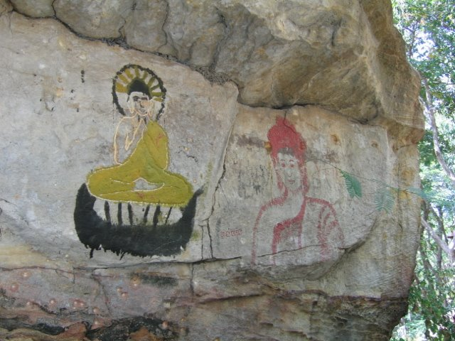 Buddhist art in Cambodia